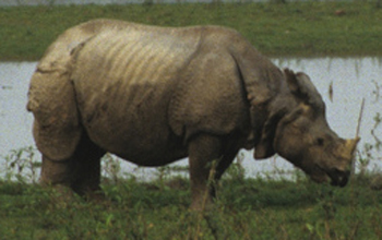 Original Photo at Rhino at Kaziranga National Park Permission obtained This image may be on Commons as :commons:File:Kazi_rhino.jpg This image may be on Commons as :commons:File:Kazi_rhino_edit.jpg